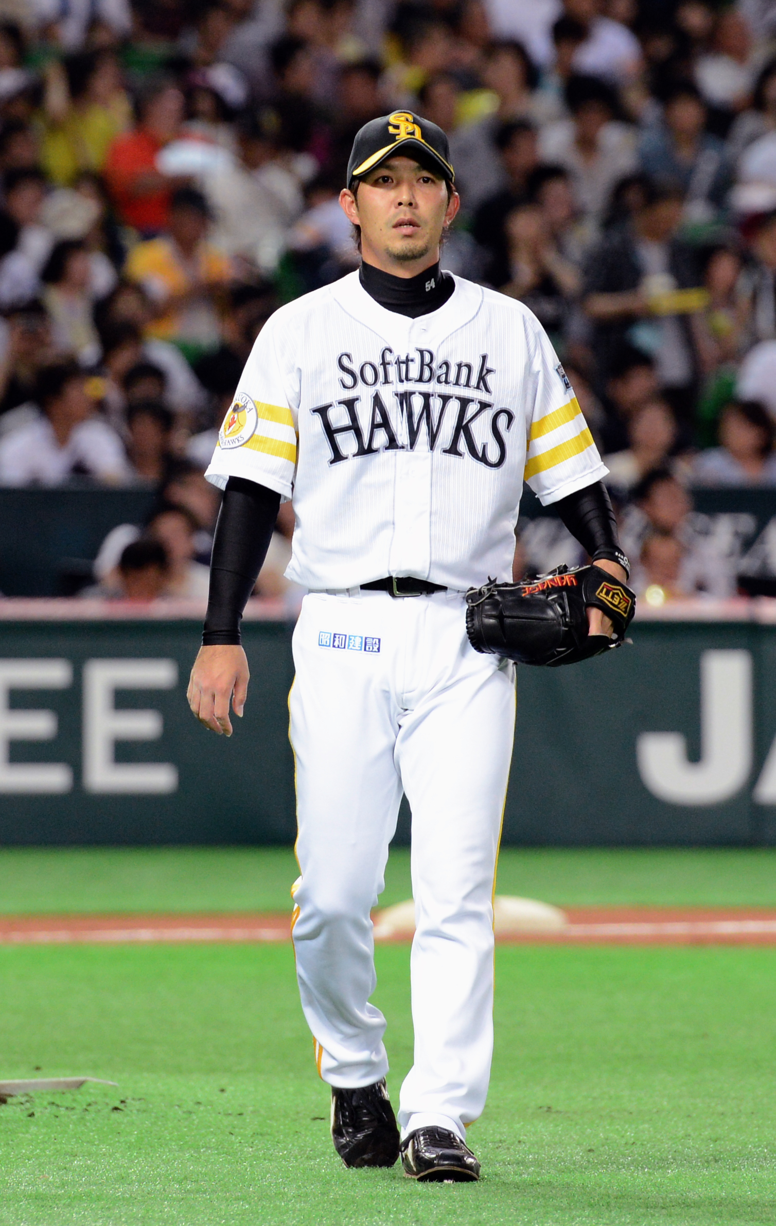 Akihiro Yanase, pitcher of the Fukuoka SoftBank Hawks, at Fukuoka Dome.